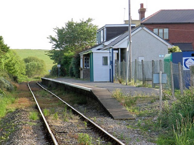 Penally Station